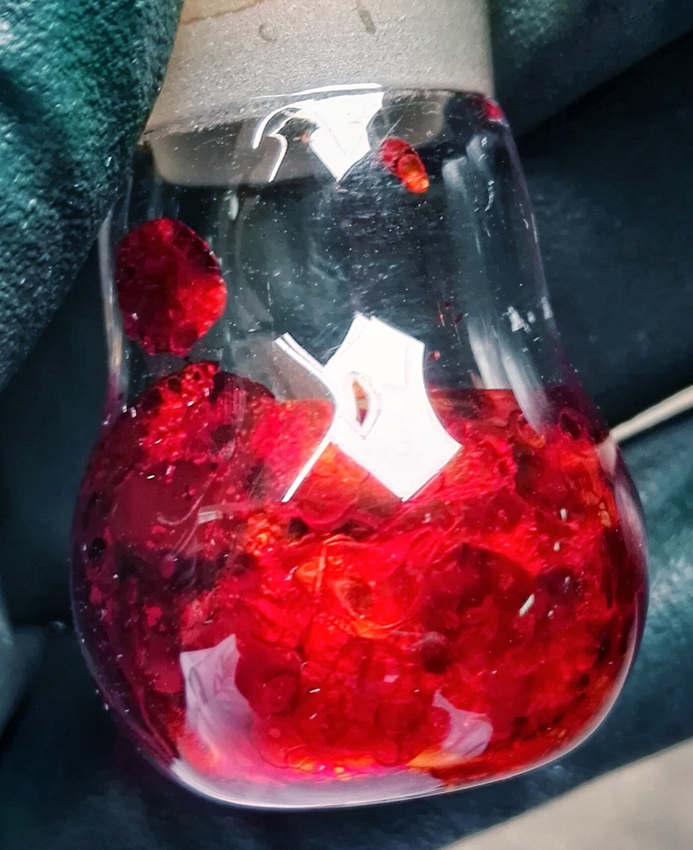 Thin lipid film with interspersed curcumin in the inner walls of a glass flask. Curcumin undergoes a color change when it is found with electrostatic conjugation and concentrated by its intercalation in the phospholipid film. Previous step for the preparation of liposomes.